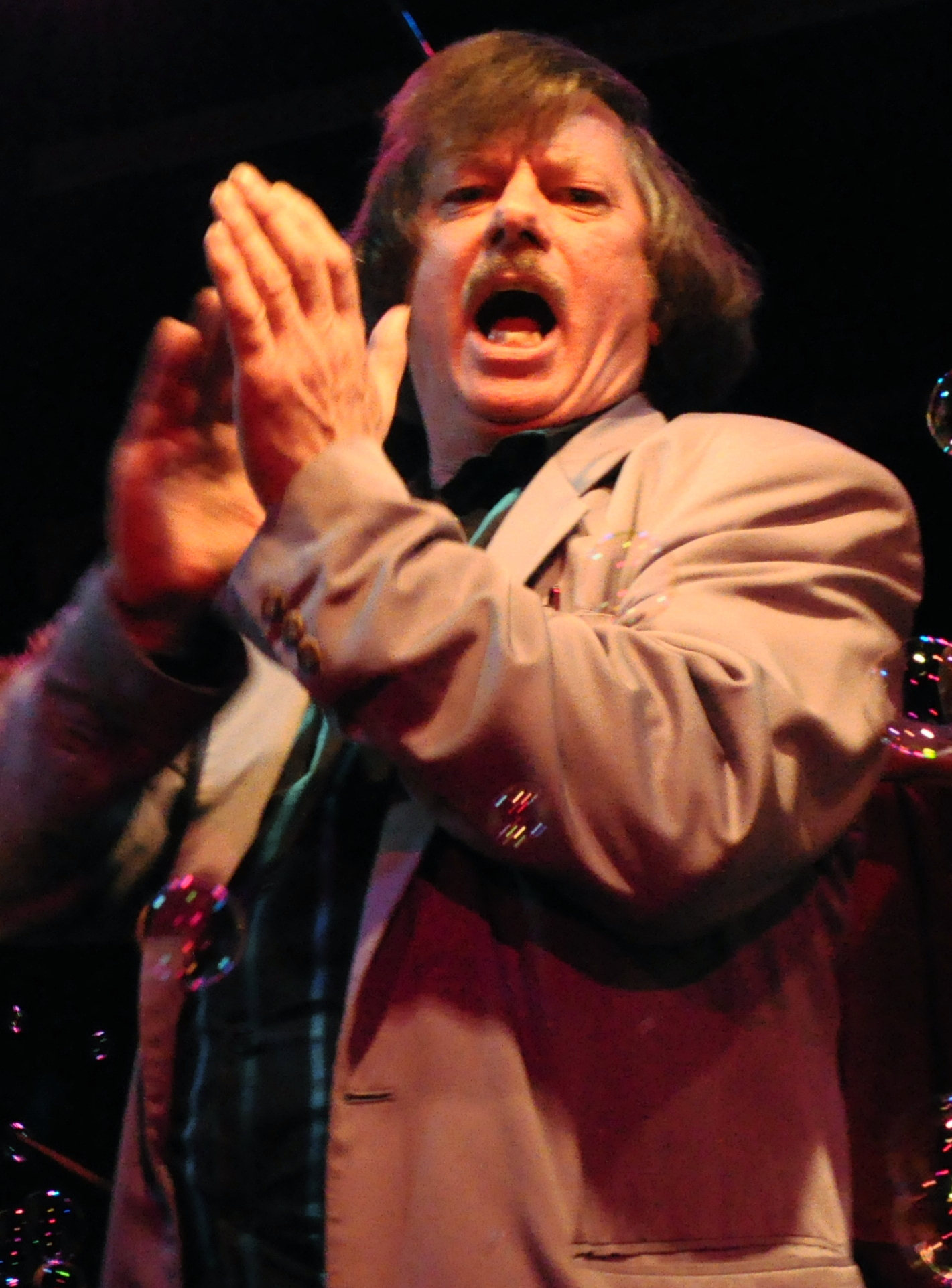 Roy Loney, taken at the 20th Annual Squirrels XXXmas, at the Tractor in Ballard, Seattle, Washington. Billed as the last ever by the Squirrels. "It's the end of the Squirrels as we know it, and I feel fine." A more complete (but less annotated) set of my photos from the show is online at